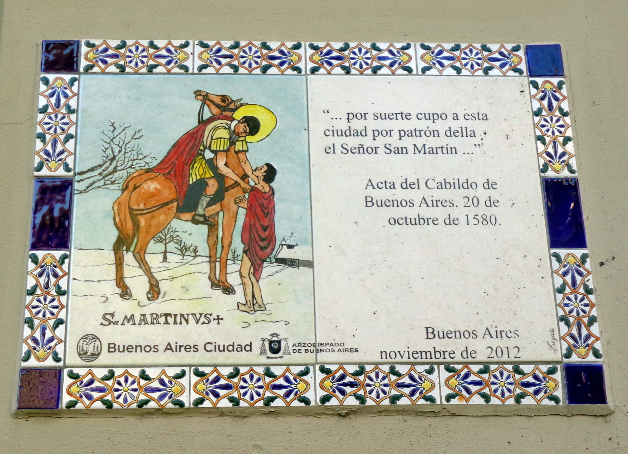 Mosaic in San Martin Street (intersection with Rivadavia) on the Metropolitan Cathedral, reminding to Saint Martin of Tours, the patron of Buenos Aires, Argentina.